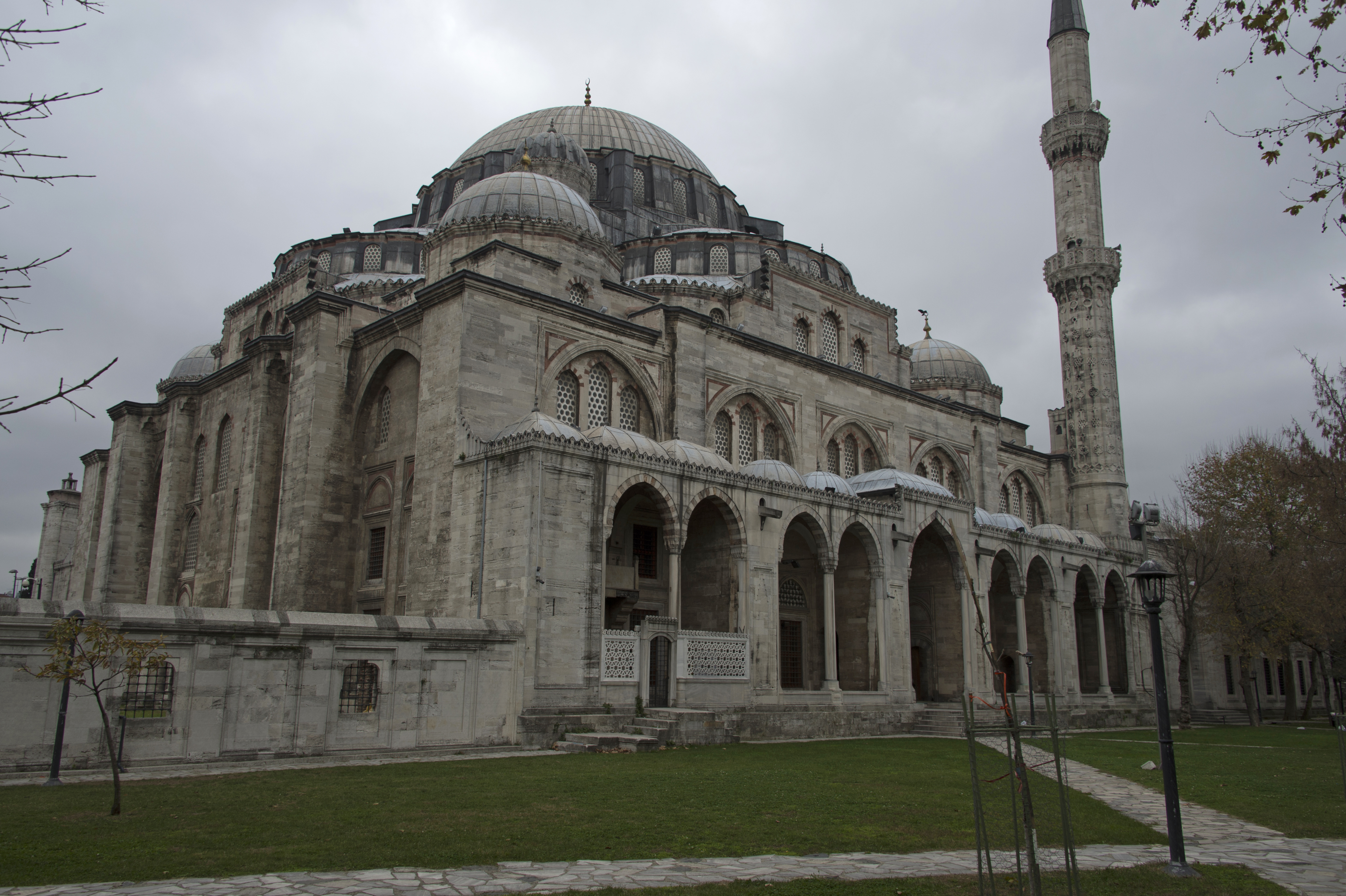 To the left the wall surrounding a garden that often can be entered through a gate, inside the garden are the great mausolea and graves. There is an exit to the north of the garden where the picture was taken through another small gate, leading past remains of the viaduct of Valens and on.